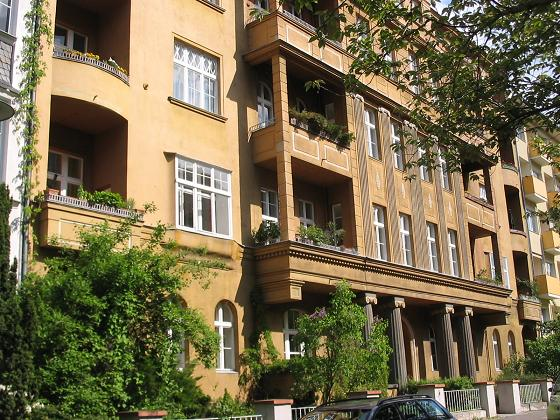 The "Rudolph-Wilde-Park" in Berlin; house in Wilhelminian style